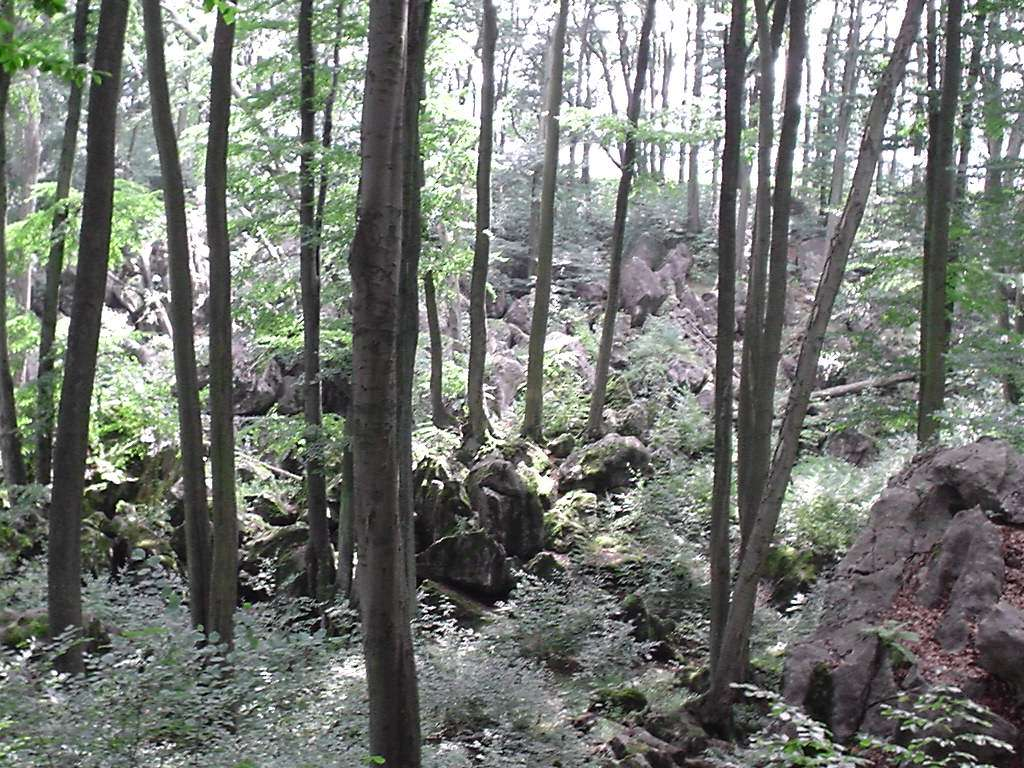 Felsenmeer (sea of rocks) in Hemer, Germany. A small karst area of collapsed caves and early medieval mining, overgrown by a beech forest.